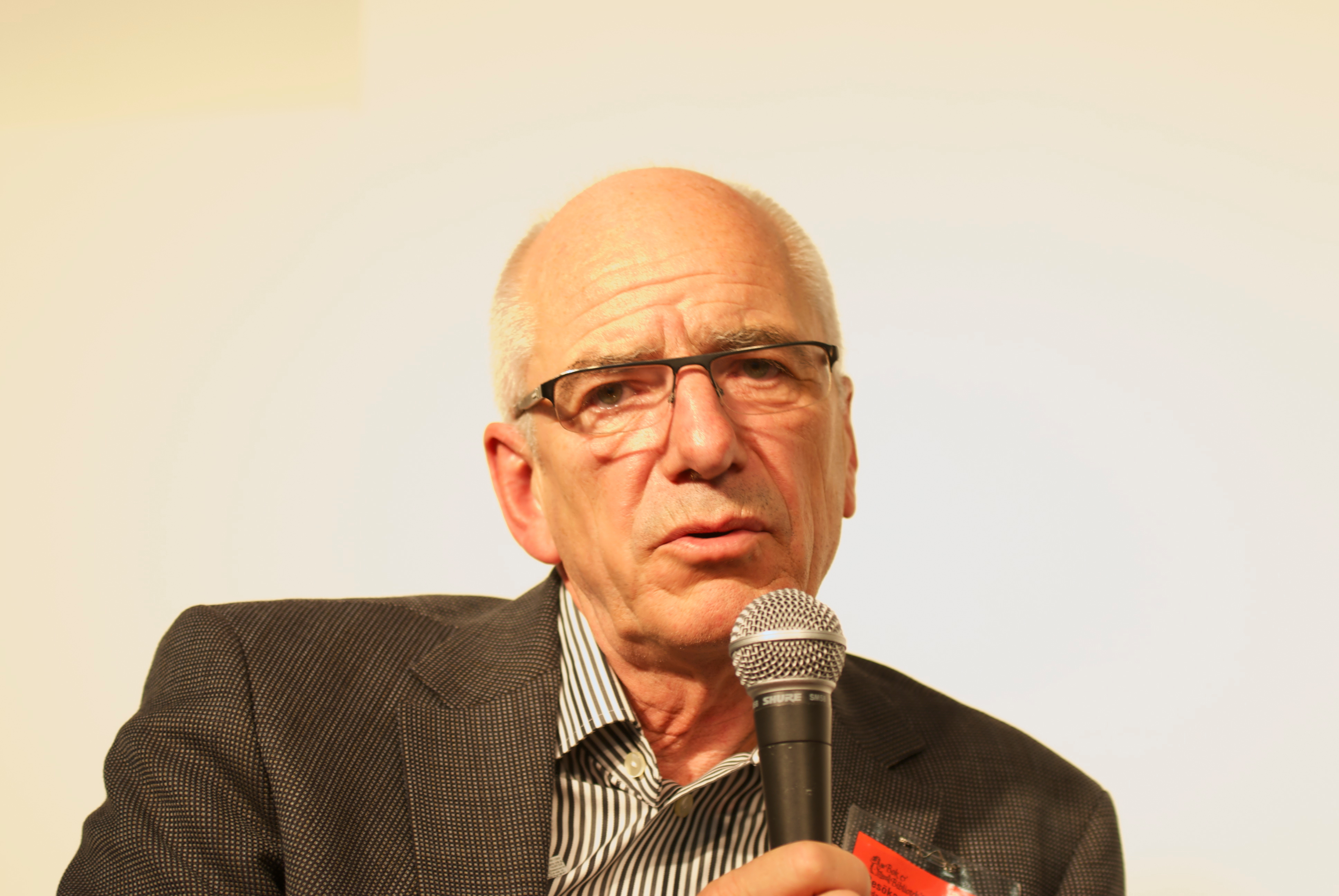 Olle Ludvigsson at Göteborg Book Fair 2011.